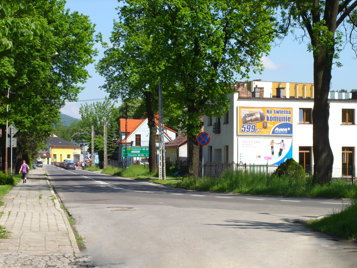 Wesoła street in Żywiec, Poland